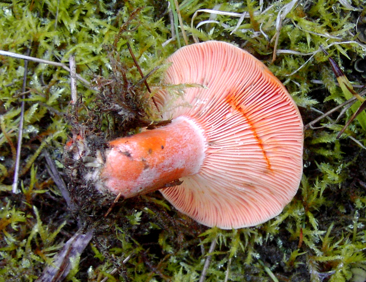 this milkcup grew next to a spruces plantation. At the injured gills you can see its orange milk.